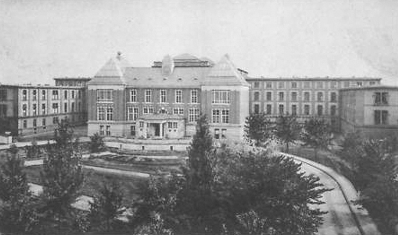 Hospital in Offenbach, 1910